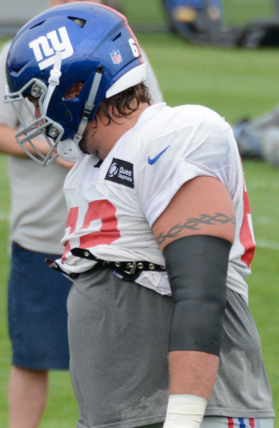 New York Giants training camp